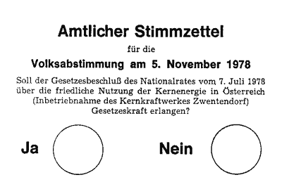 Official voting paper about the plebiscite to put the Nuclear Power Plant Zwentendorf into operation and for peaceful use of nuclear power in Austria